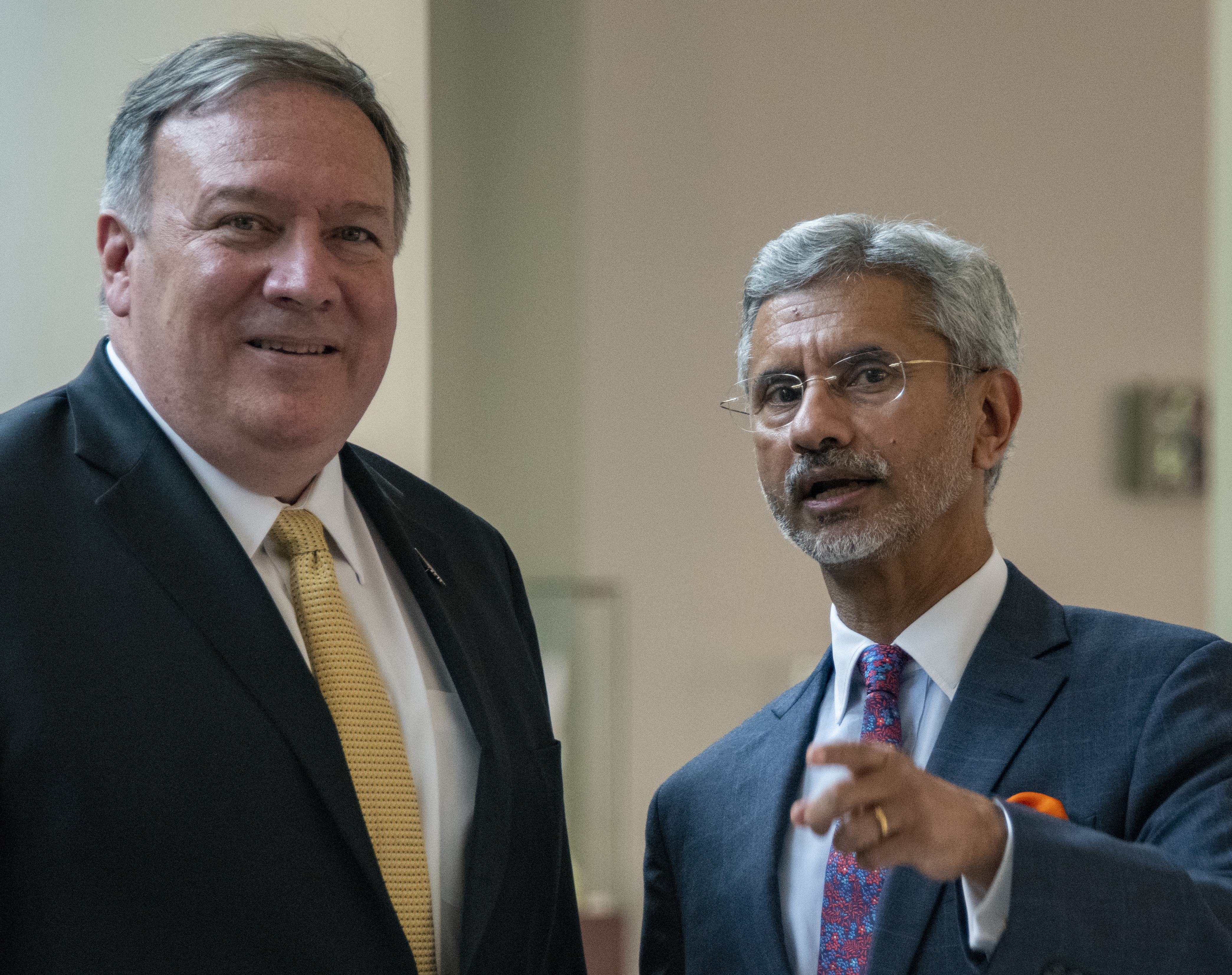 U.S. Secretary of State Michael R. Pompeo meets with Indian Foreign Minister Subrahmanyam Jaishankar in New Delhi, India on June 26, 2019. [State Department photo by Ron Przysucha/ Public Domain]